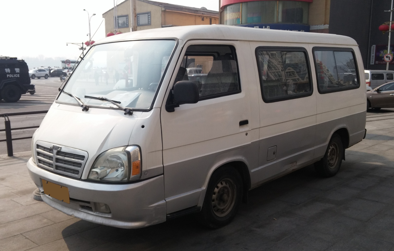 JMC Yunba photographed in Dandong, Liaoning province, China.